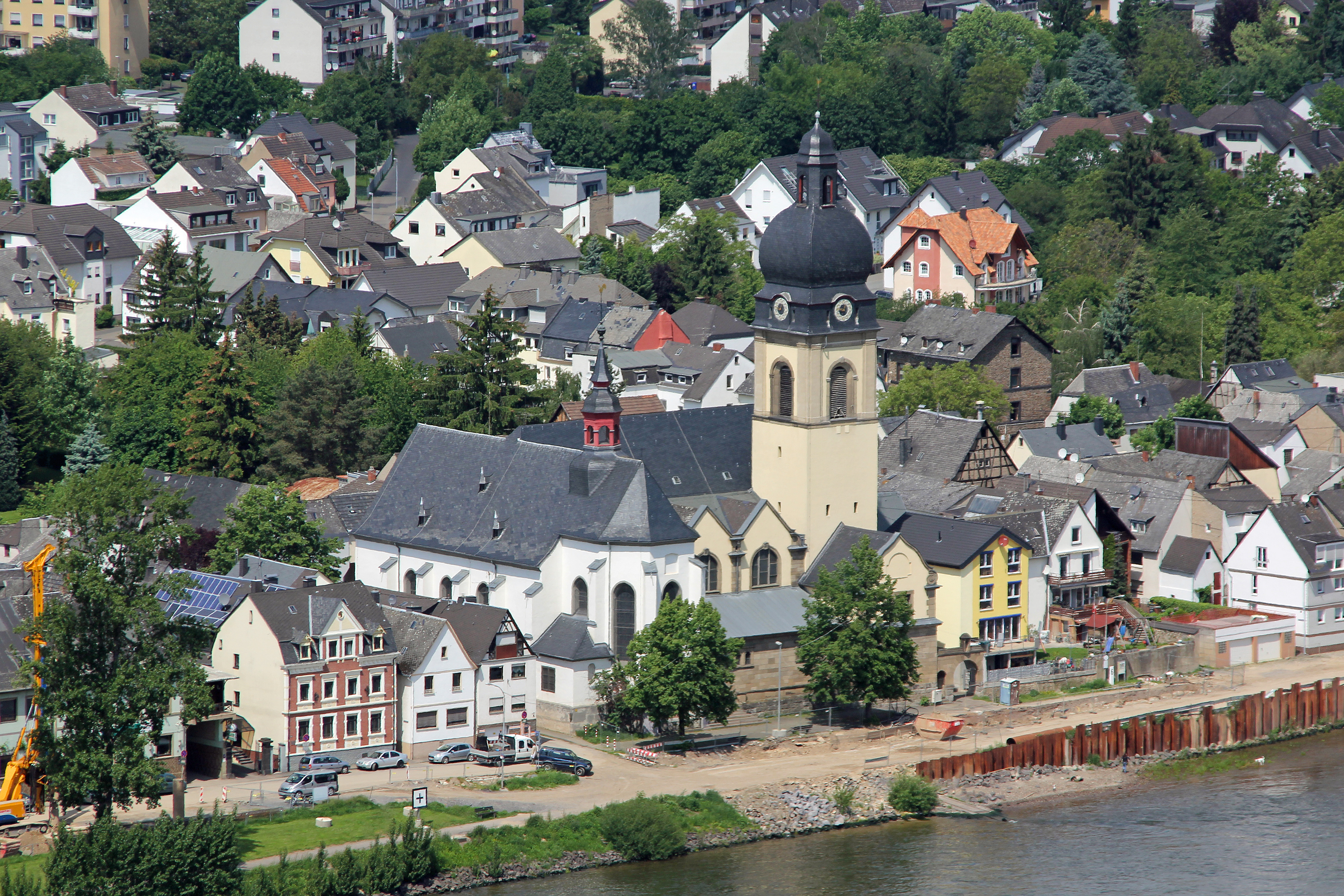 St. Peter church in Koblenz